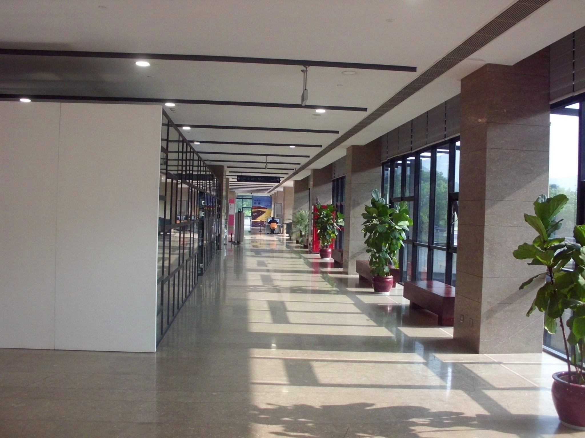 Zhejiang Art Museum